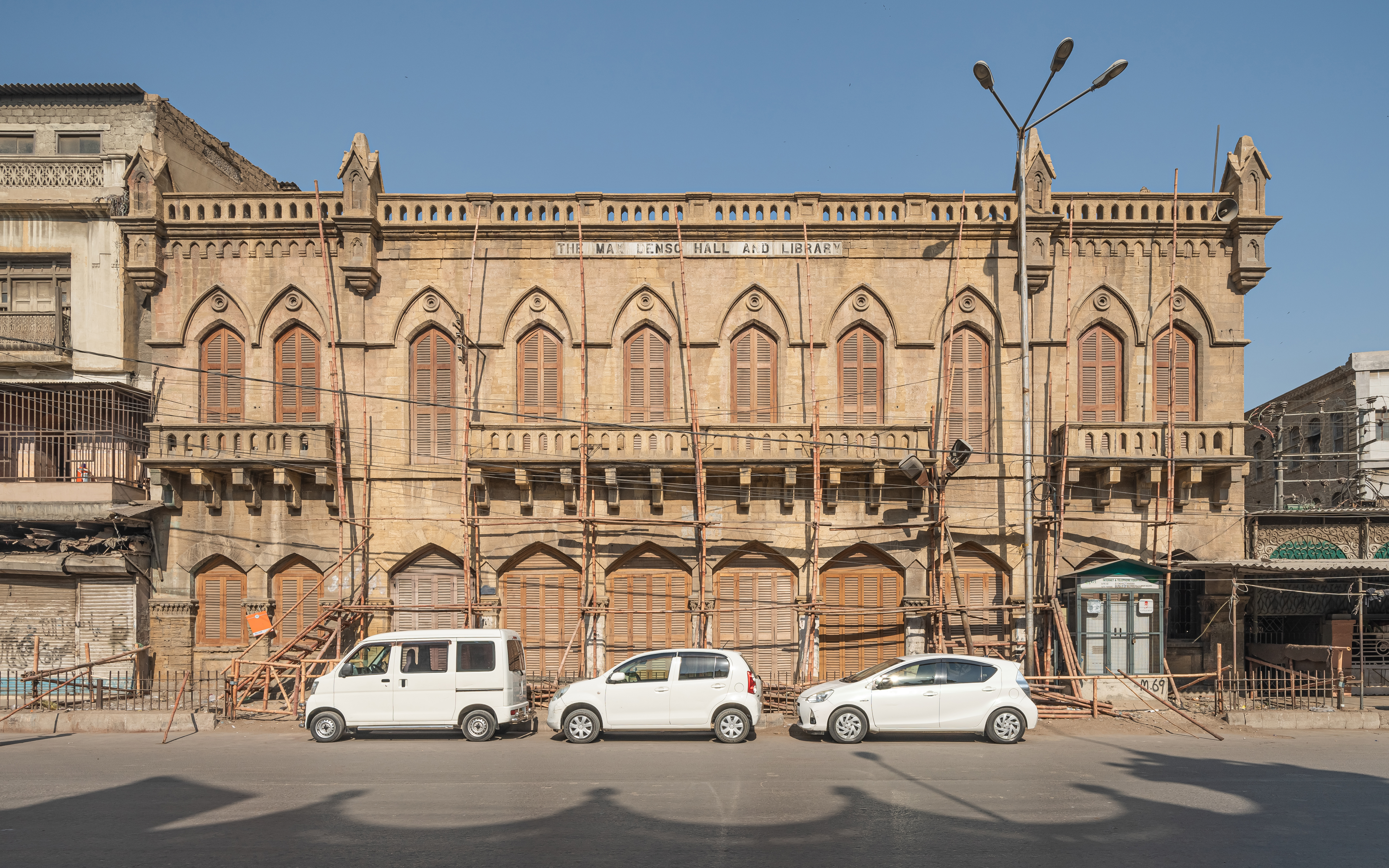 Denso Hall building at M.A.Jinnah Road in Karachi, Pakistan